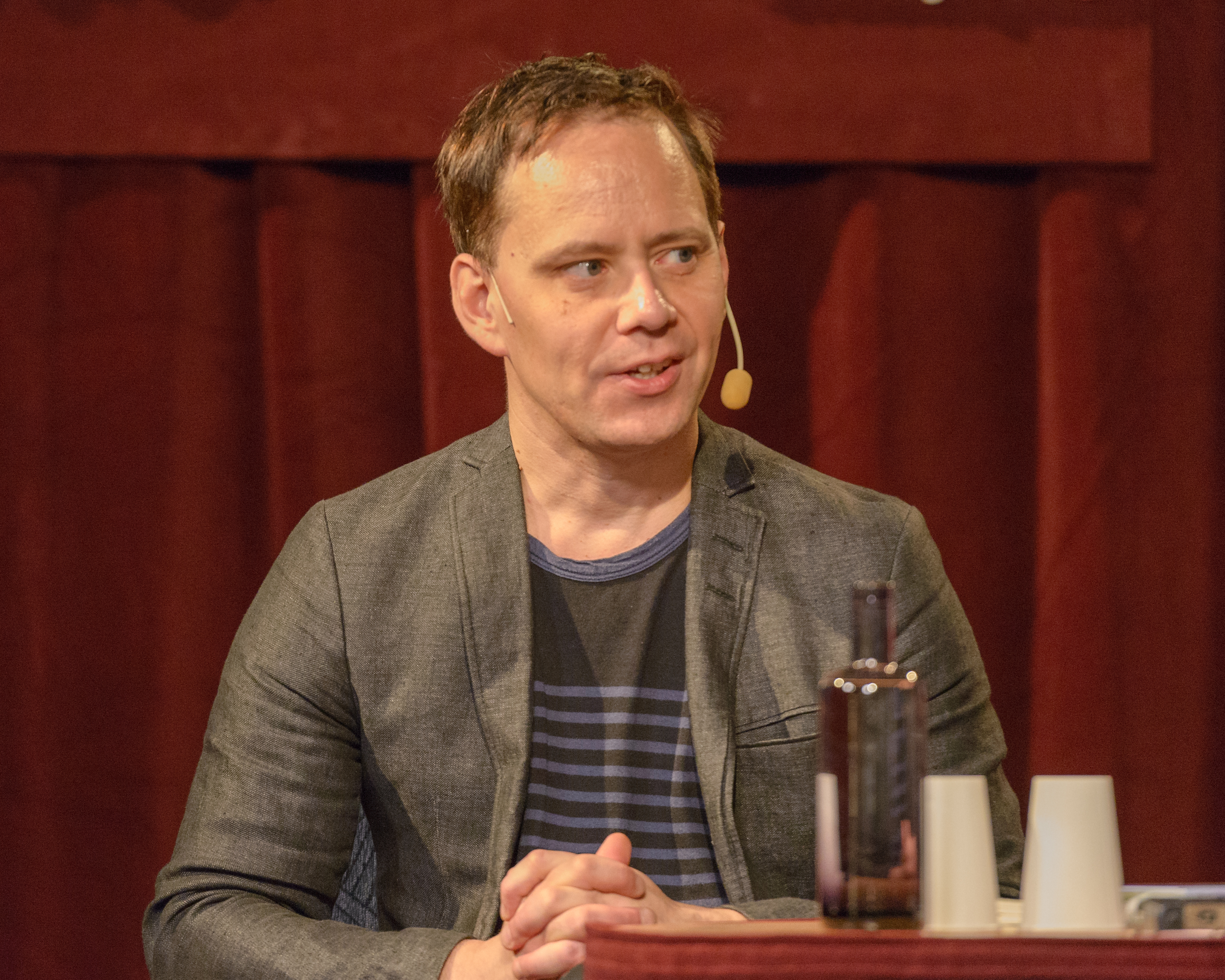 Mats Jonsson at Göteborg Book Fair 2014.